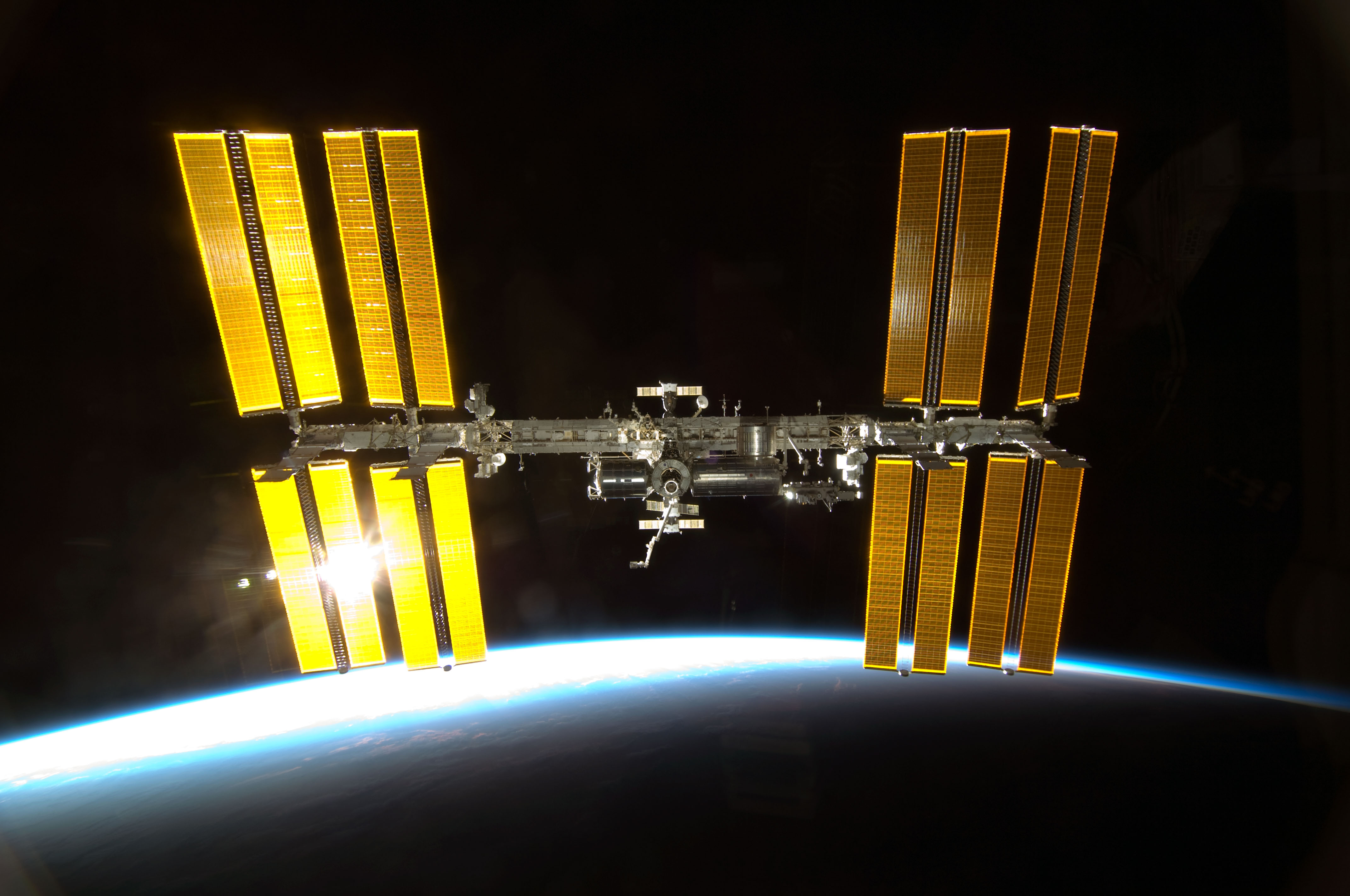 Backdropped by Earth's horizon and the blackness of space, the International Space Station is featured in this image photographed by an STS-130 crew member as space shuttle Endeavour and the station approach each other during rendezvous and docking activities. Docking occurred at 11:06 p.m. (CST) on Feb. 9, 2010, delivering the Tranquility node and its Cupola.